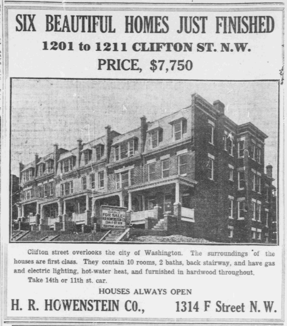 Advertisement for 1201 Clifton St. NW, Washington, DC – 1910